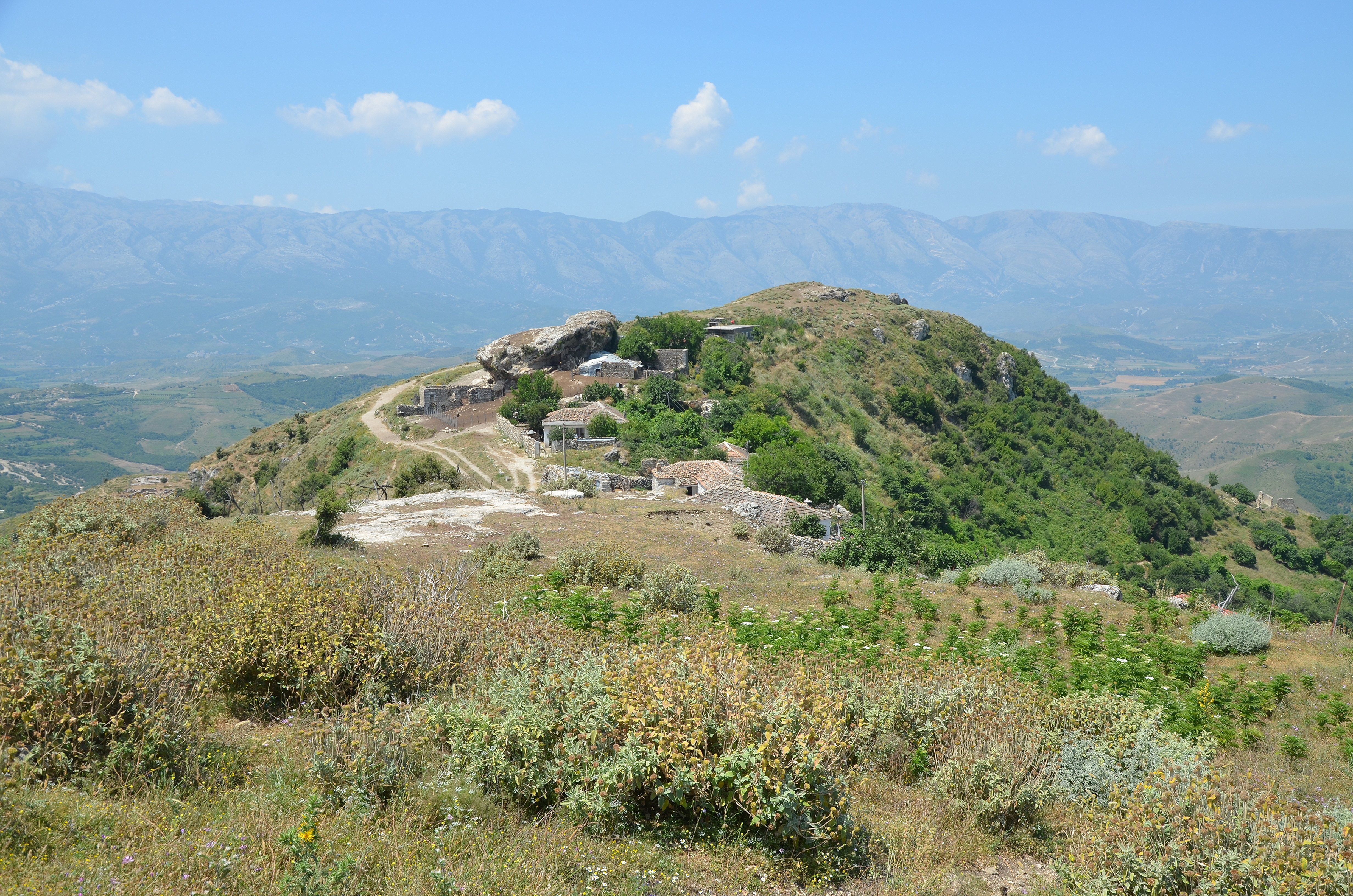 View of the Acropolis of Amantia, Albania